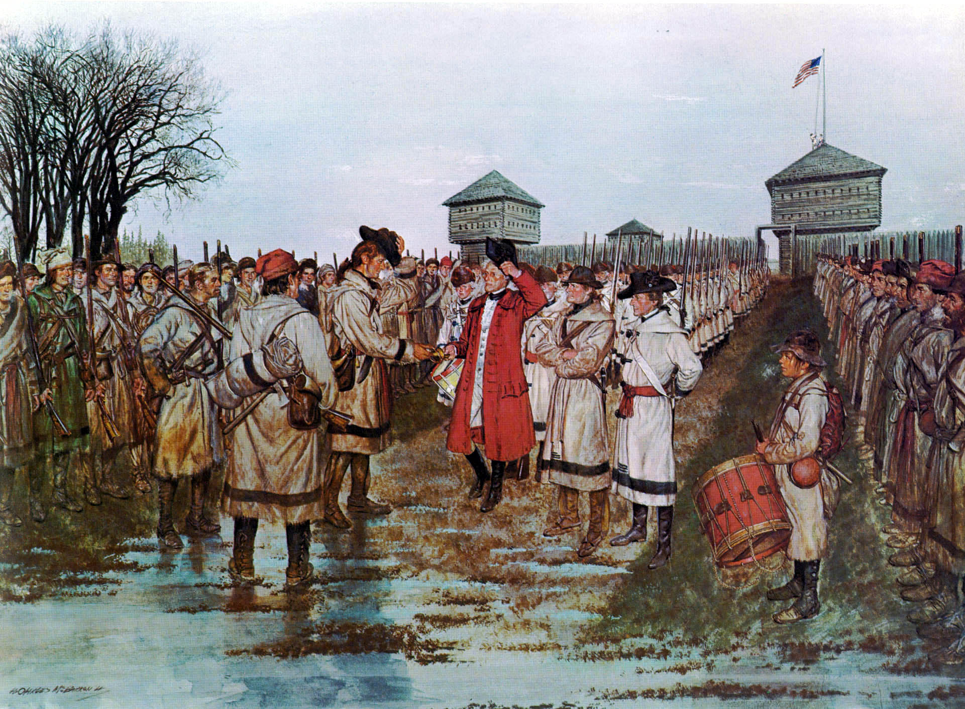 Lt Governor Henry Hamilton surrenders to Col George Rogers Clark, 24 February 1779